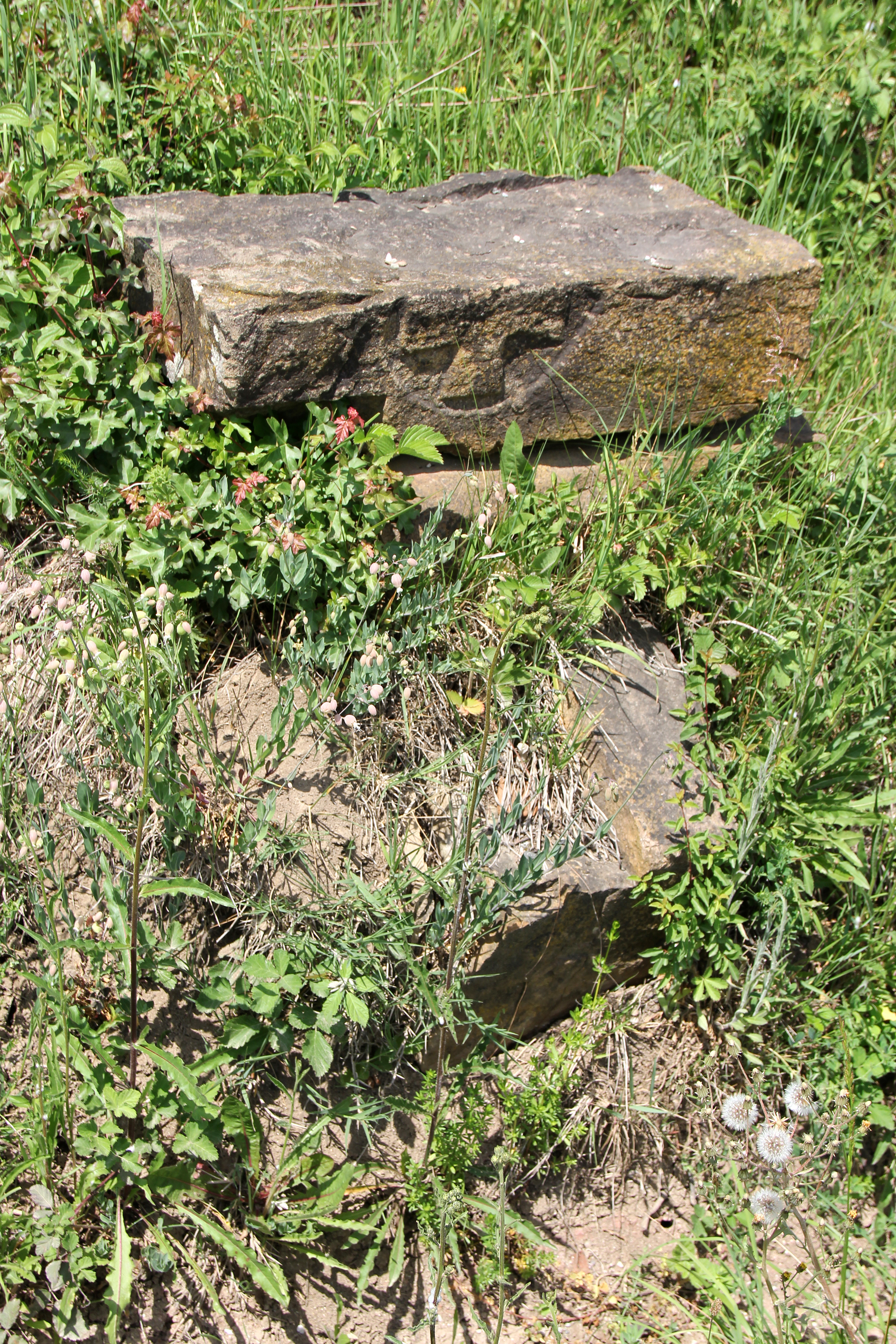 Roadside tombstone located nearby St. Nicholas Church in the village of Silopaj (the municipality of Gornji Milanovac), Serbia.